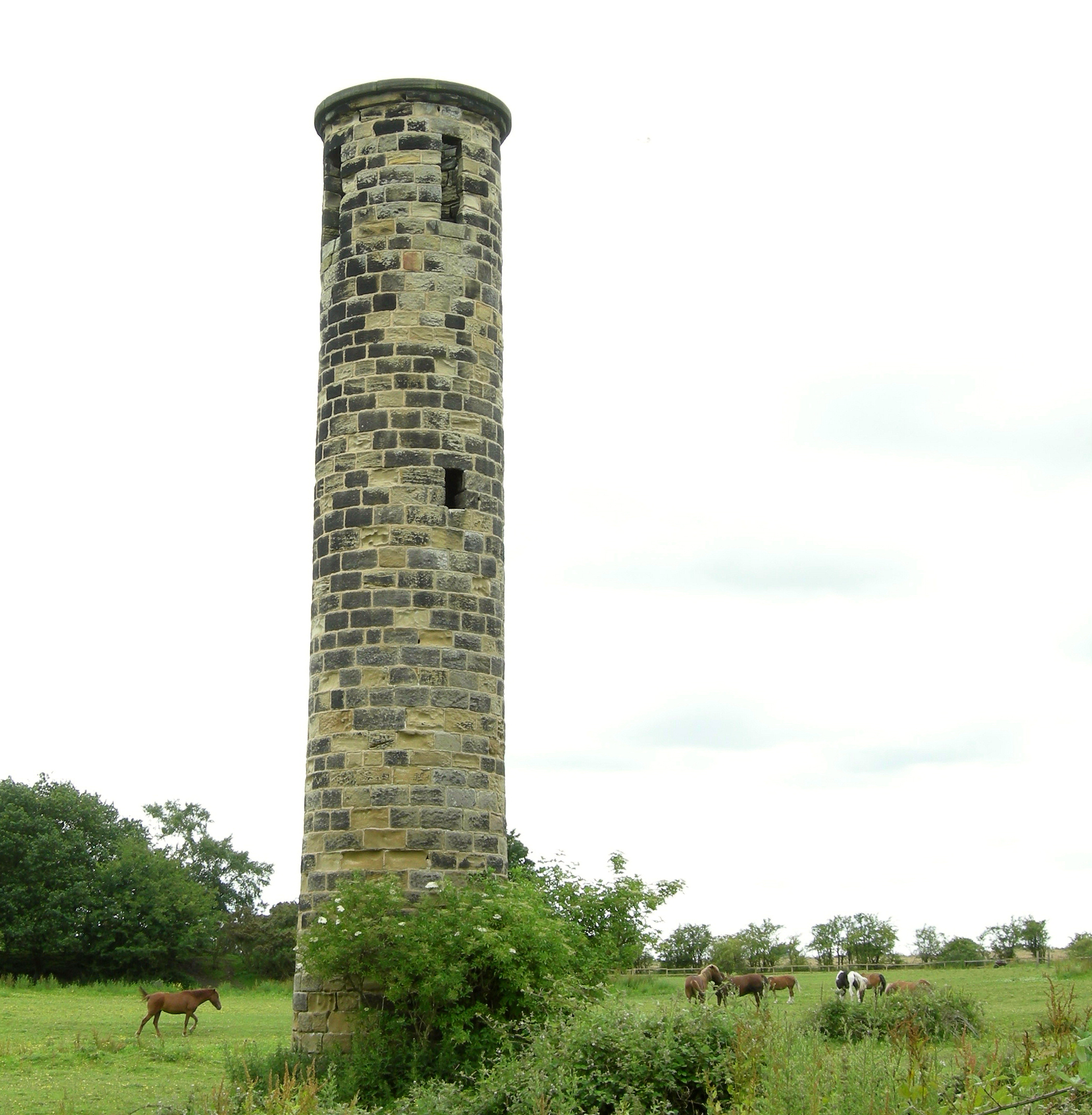 Sighting tower used by builders of Bramhope Tunnel in 1845-49 to fix position of tunnel trackway, Bramhope, West Yorkshire, England. Photographed with horses to show relative size.